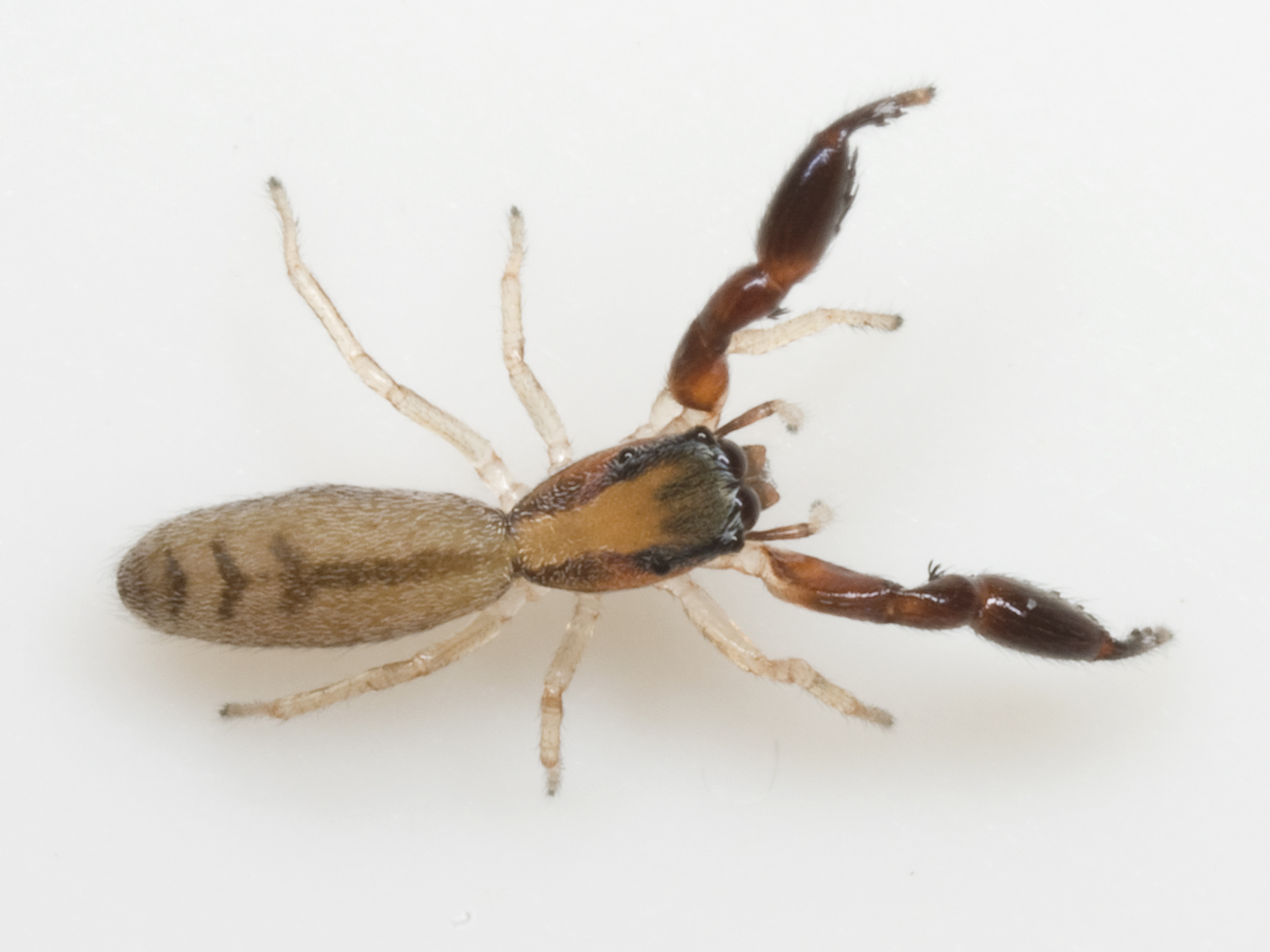 Cheliferoides longimanus (synonym: Bellota longimana) jumping spider collected in Cameron County, Texas. Species determined by Wayne Maddison.